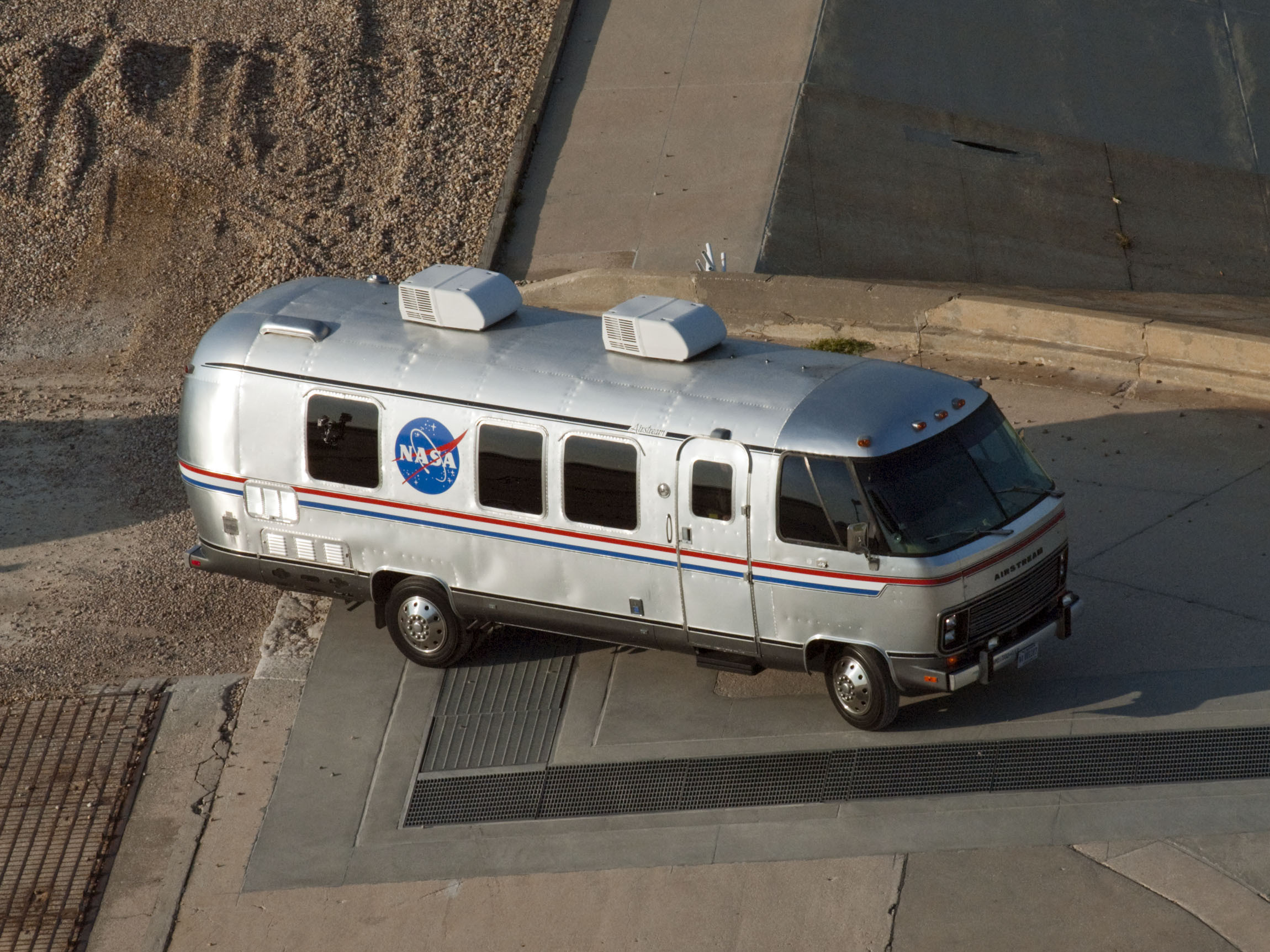 Seen from an upper level of Launch Pad 39A at NASA's Kennedy Space Center in Florida is the arrival of the silver Astrovan transporting the STS-135 crew members to the pad to participate in a launch countdown simulation exercise. As part of the Terminal Countdown Demonstration Test (TCDT), the crew members are strapped into their seats on Atlantis to practice the steps that will be taken on launch day.